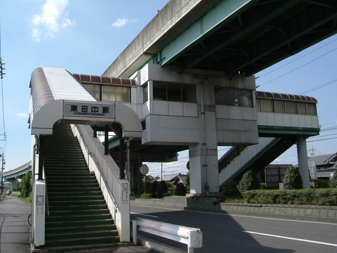 Higashitanaka Station is a train staion in Komaki, Aichi, Japan, on the Tokadai Line. 東田中駅は、愛知県小牧市にある桃花台線の駅。写真は南口。